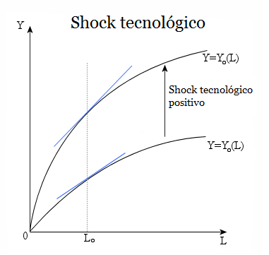 Positive technology shock